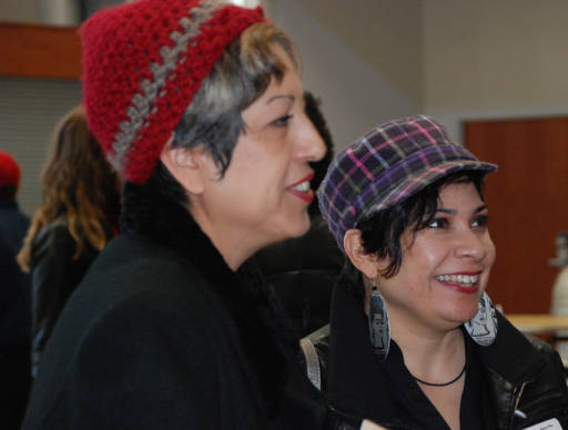 Alice Bag and Michelle Habell-Pallan, Women Who Rock 2011 conference, Seattle University Pigott Building, February 18, 2011. Photographed by Macklin, Angelica .